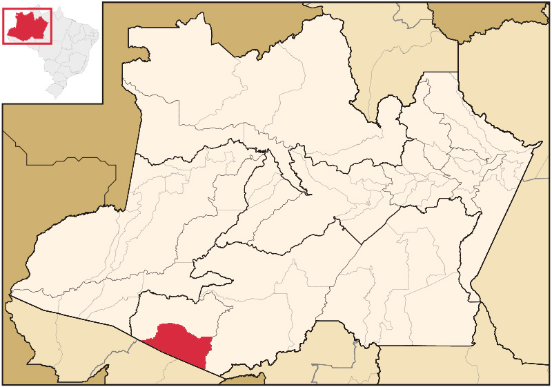 Map of Amazonas highlighting Boca do Acre.